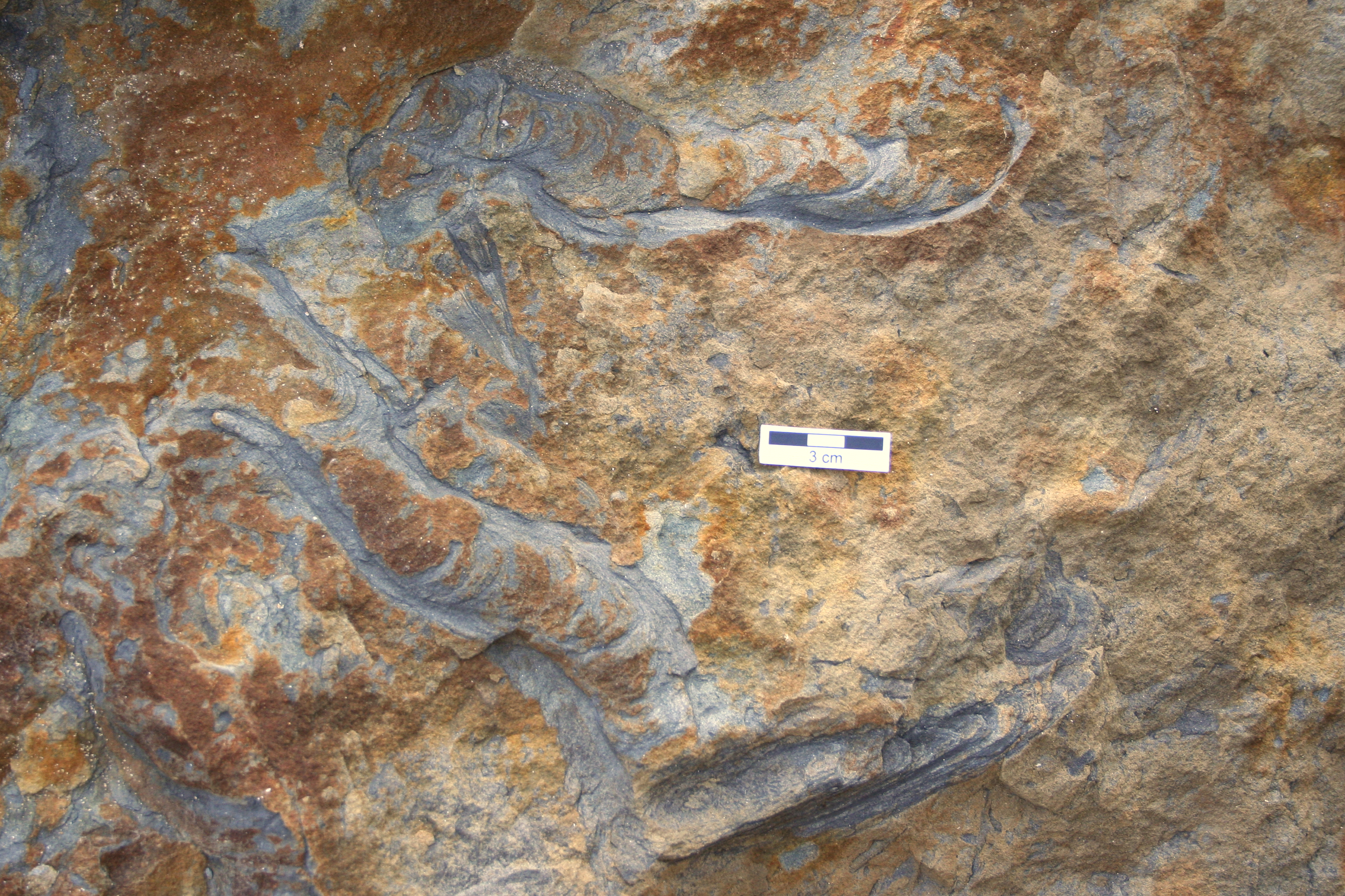 Bedding plane view of Rhizocorallium from the Snapper Point Formation (Permian), New South Wales.